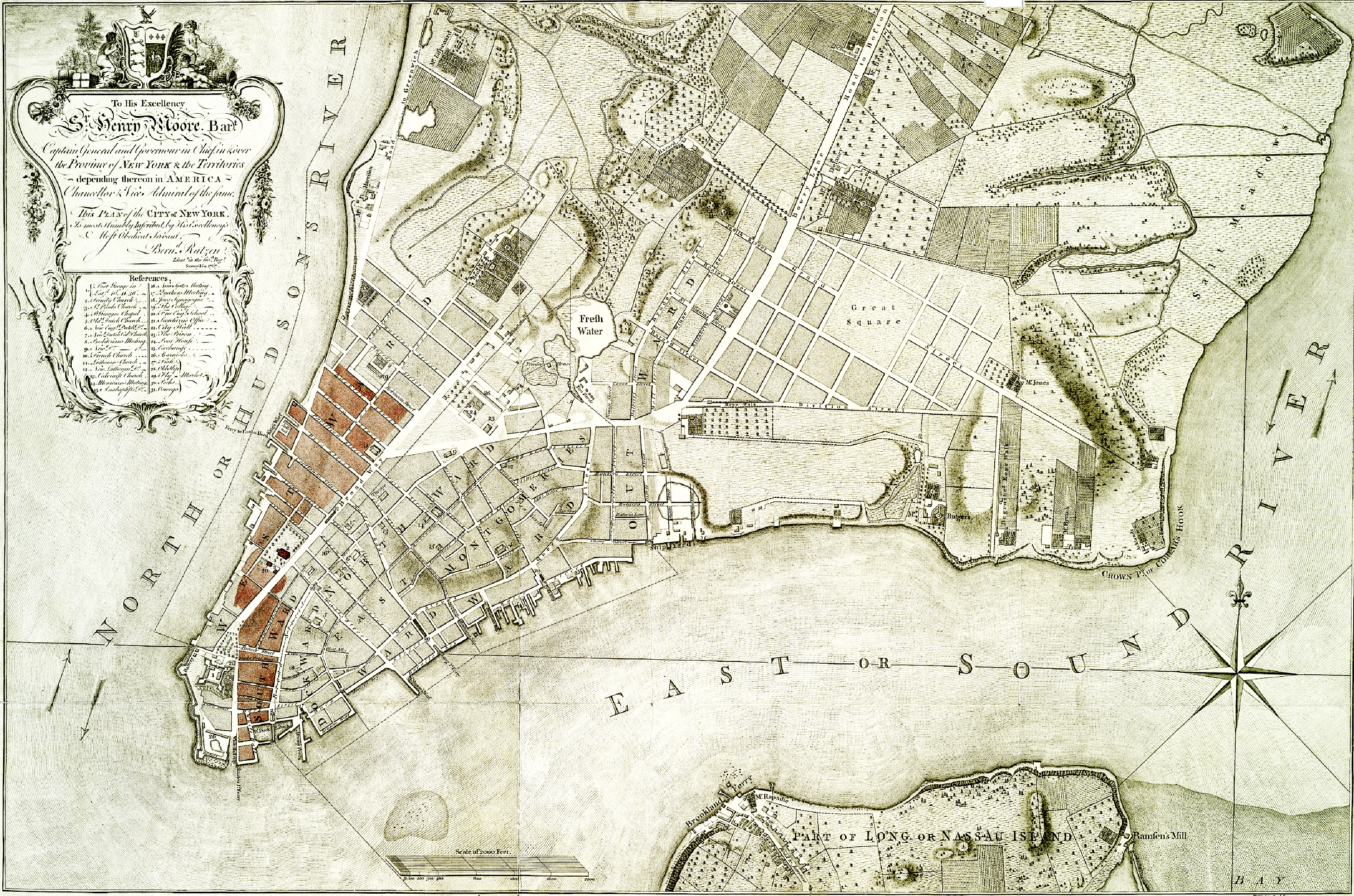 A 1776 map (labeled "Survey'd in 1767") with contemporary markings indicating the area affected by the 1776 Great Fire of New York. The caption reads: To His Excellency Sr. Henry Moore, Bart., captain general and governour in chief, in & over the Province of New York & the territories depending thereon in America, chancellor & vice admiral of the same, this plan of the city of New York, is most humbly inscribed / by His Excellency's most obedient servant, Bernd. Ratzen [sic], lieutt. in the 60th Regt. ; T. Kitchin sculpt.